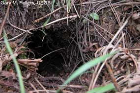 Mountain beaver (Aplodontia rufa) burrow